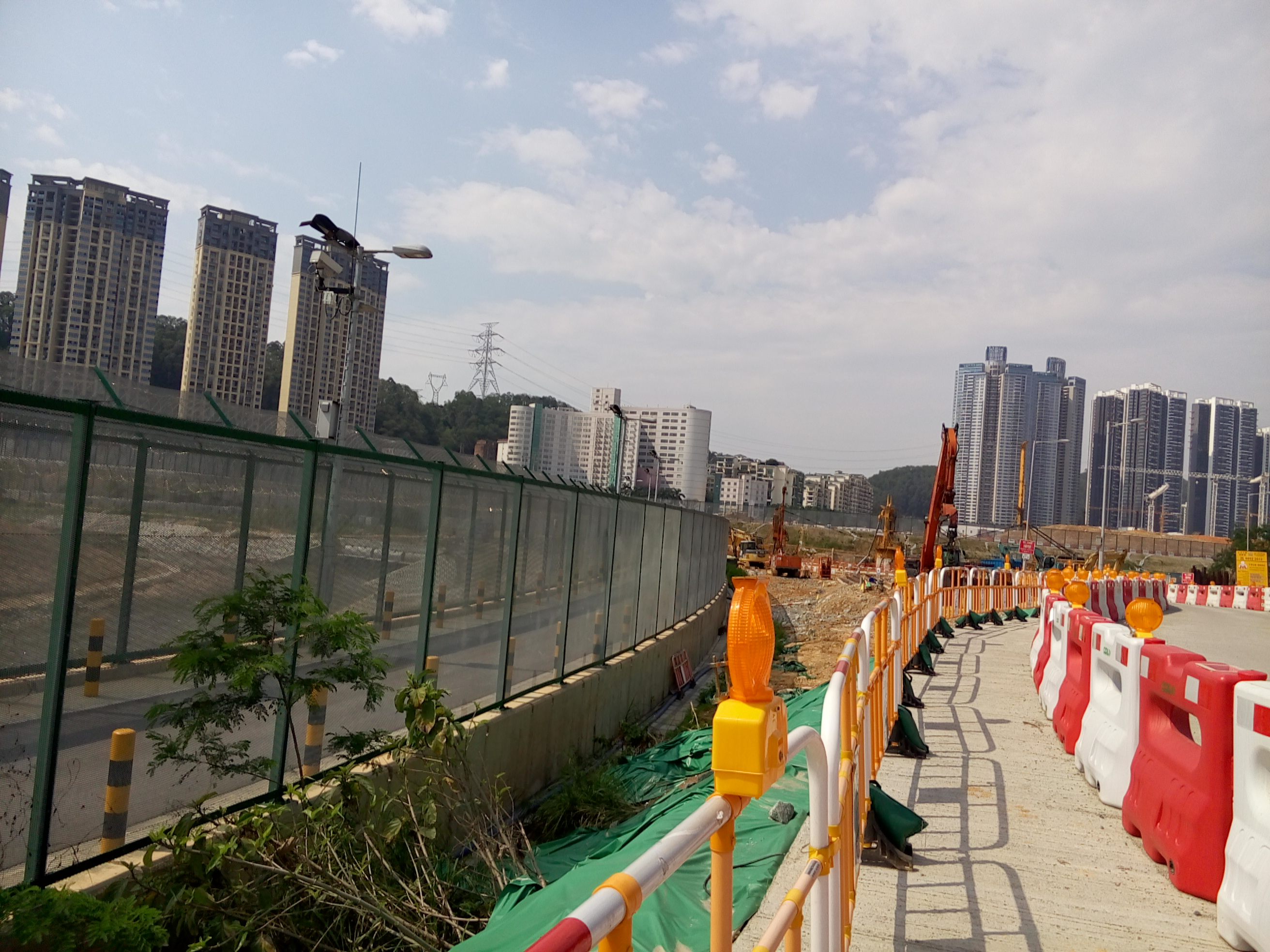 i.e. Shenzhen, mainland China as viewed from Hong Kong SAR. Now the Frontier Closed Area is really just a small police patrol road in the foreground.